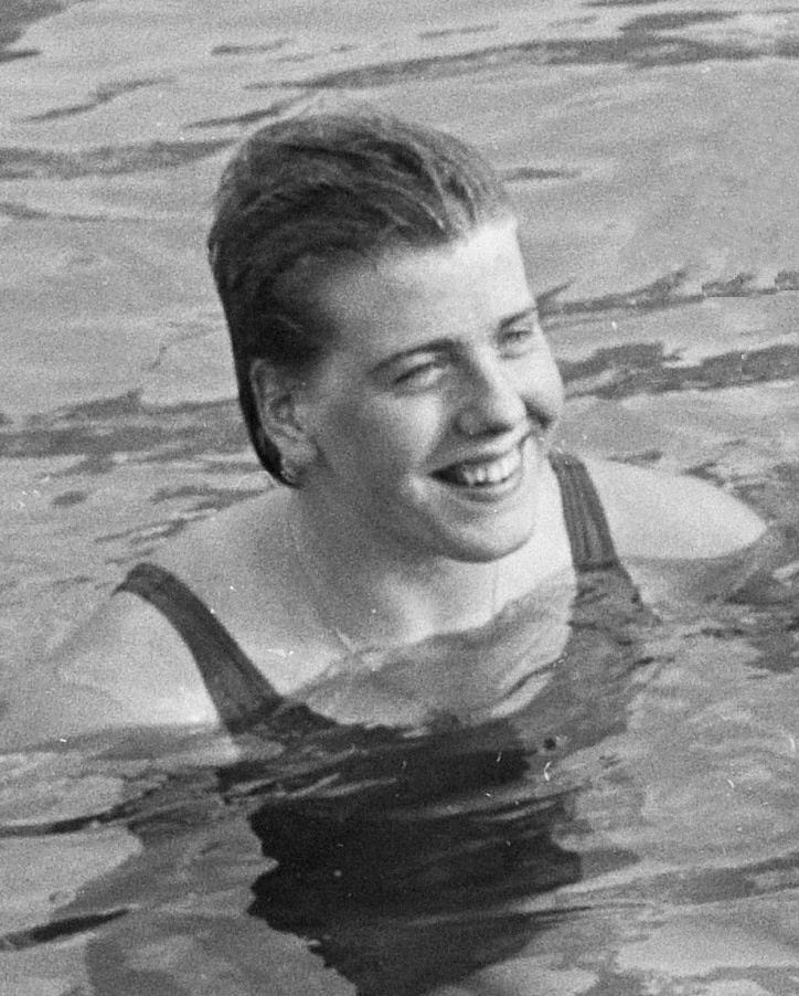 Pauline van der Wildt